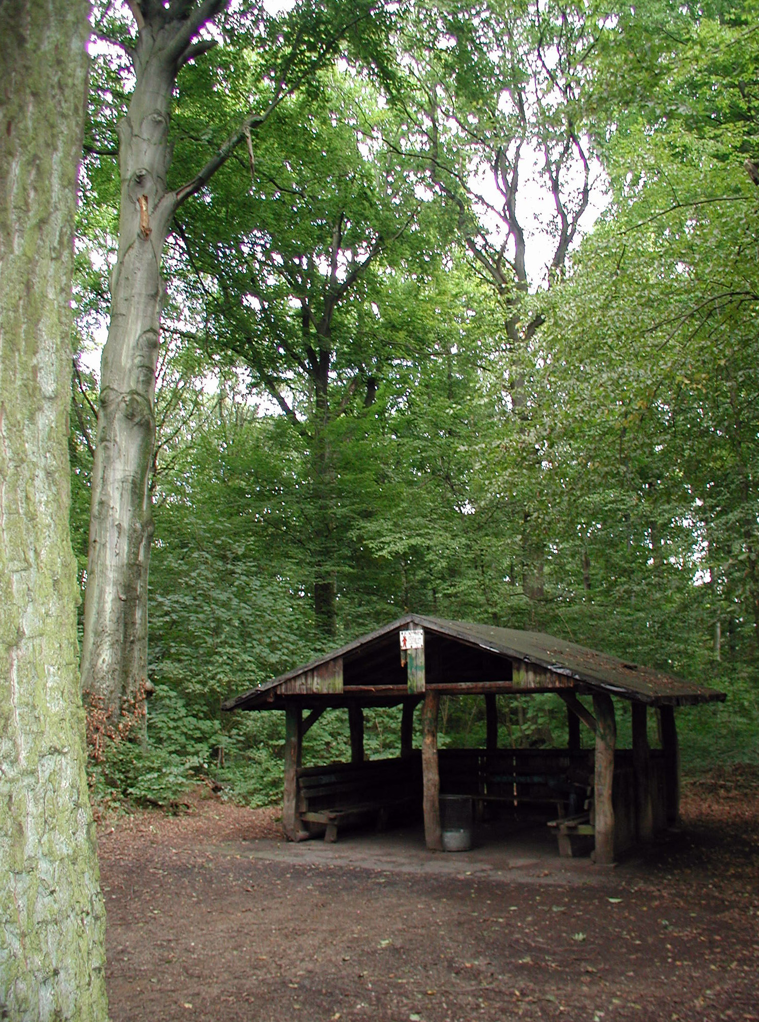 Cologne, forest "Gremberger Wäldchen"